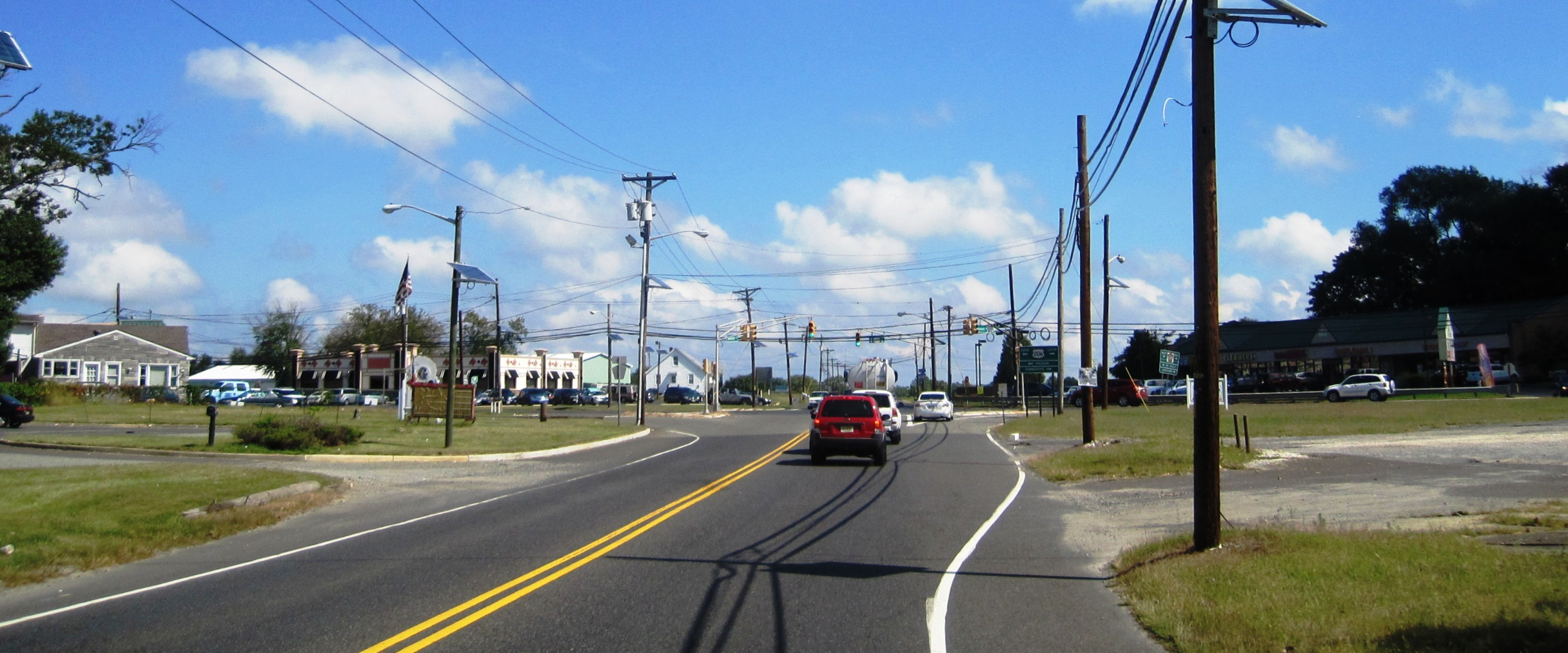 Photo of County Route 537 eastbound at its intersection with U.S. Route 206 in Springfield Township, Burlington County, New Jersey. The area is also called Chambers Corner.